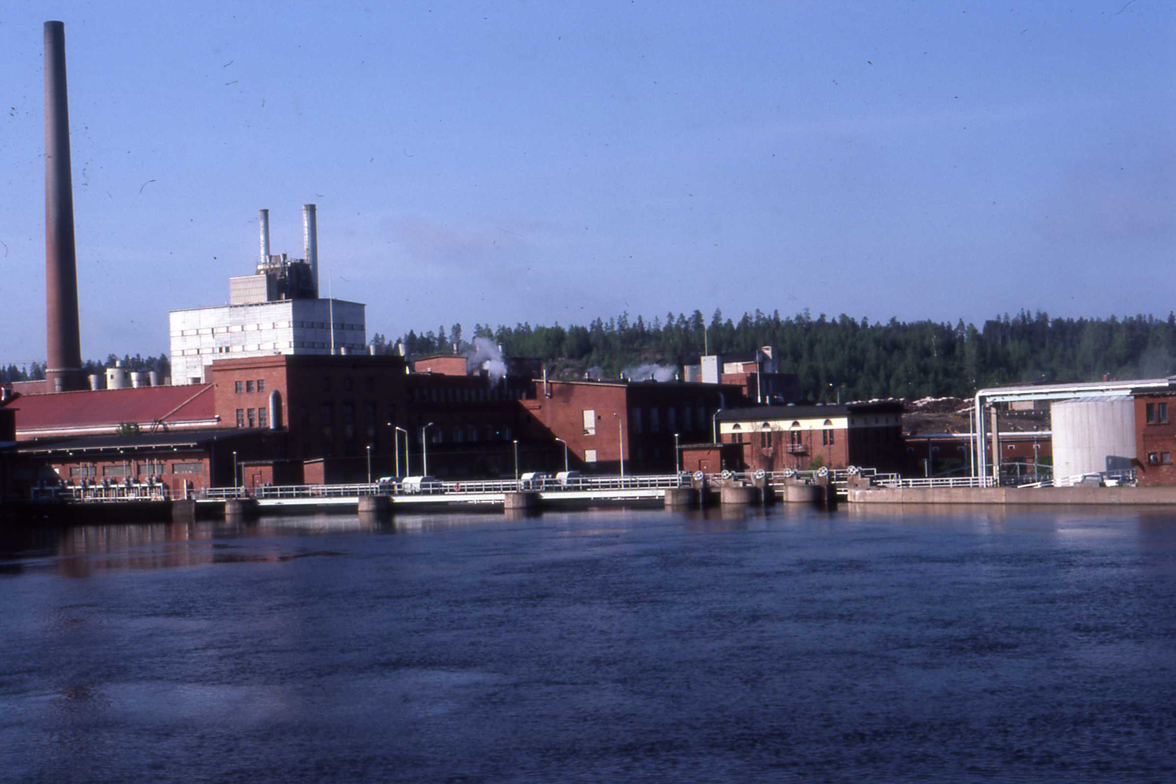 Kymintehdas paper mill in Kuusankoski, Finland in 1987